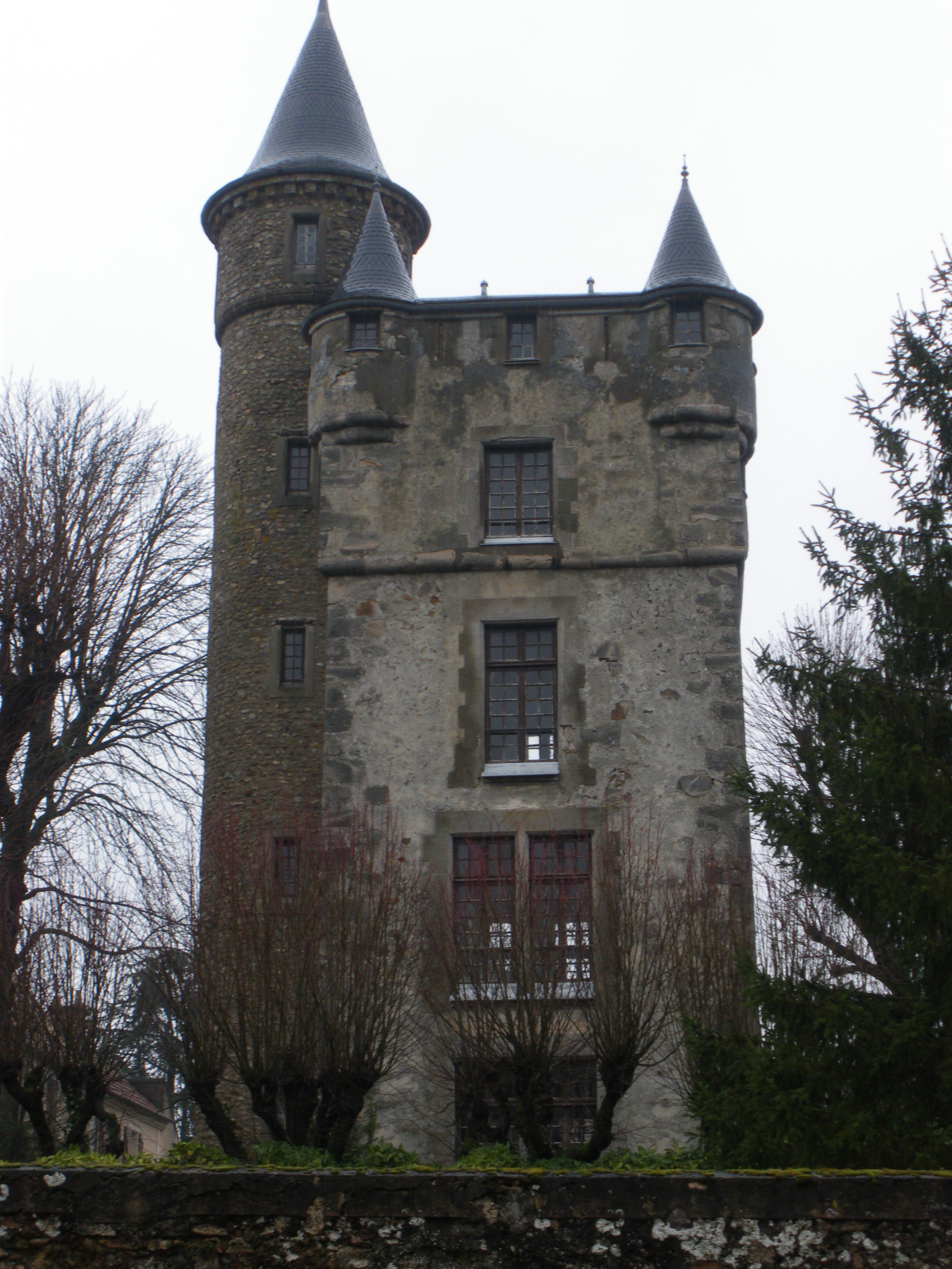 Briis sous Forges Castel, Essonne, France